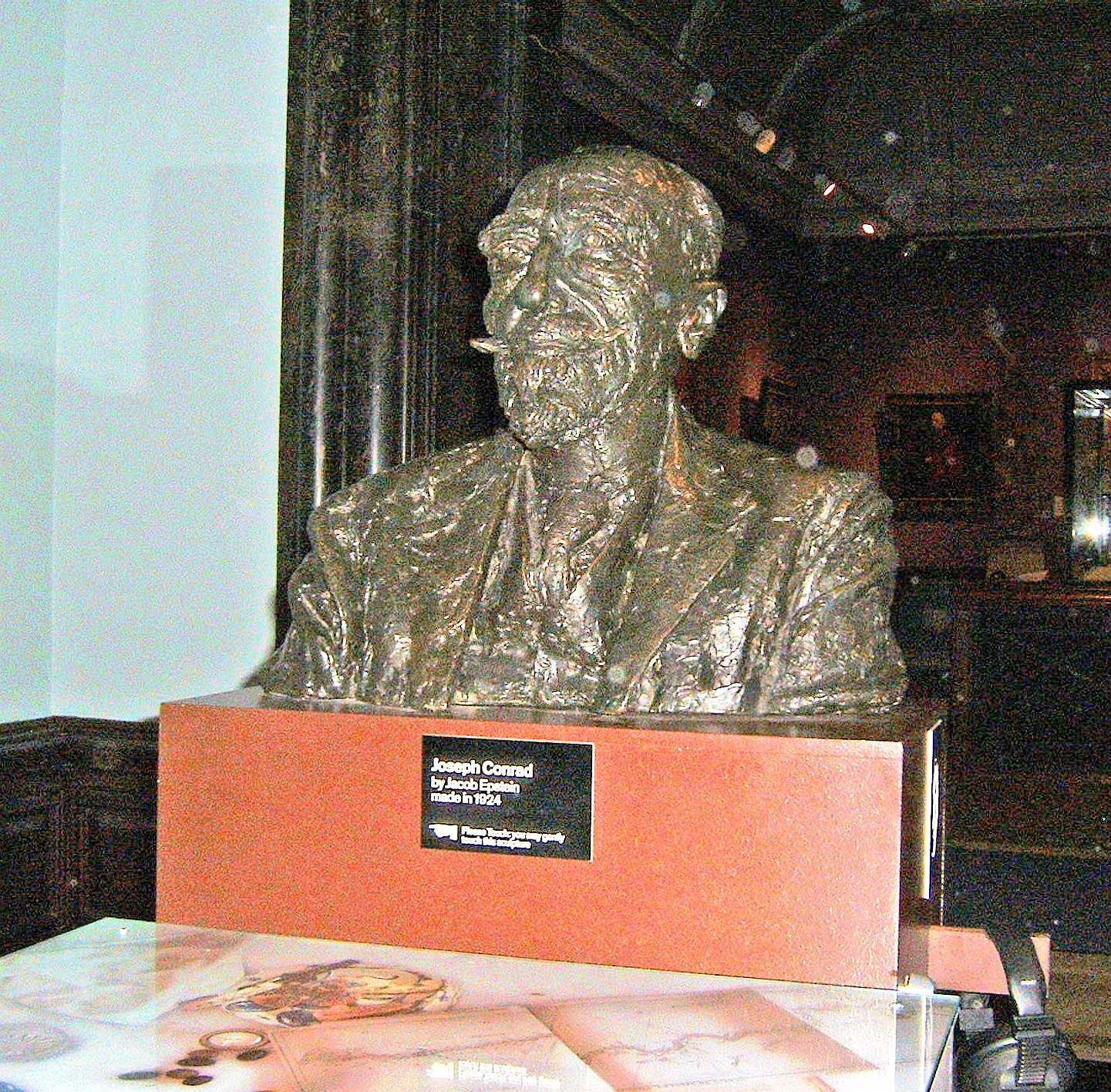 Bust of Joseph Conrad